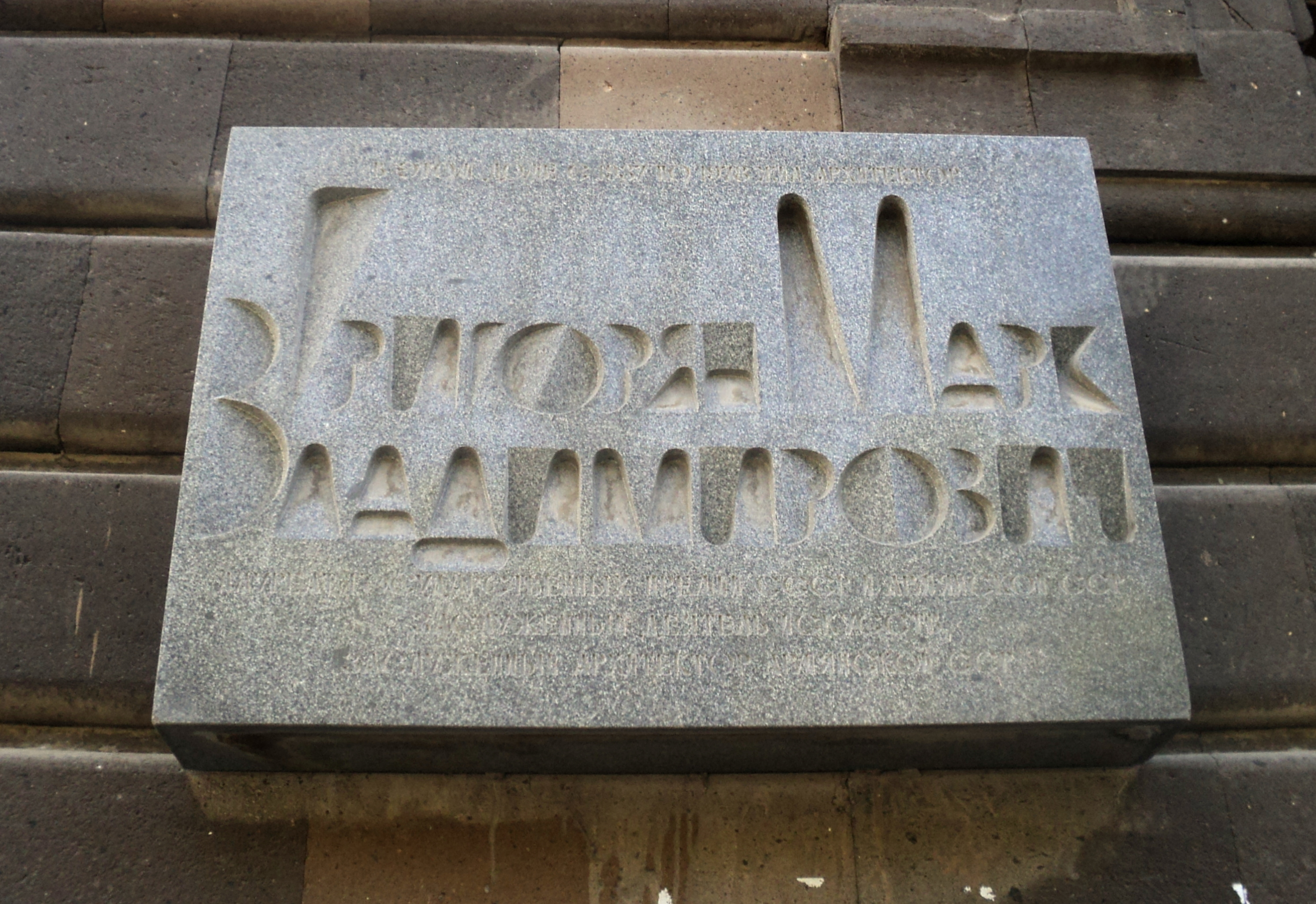 Mark Grigoryan's Plaque